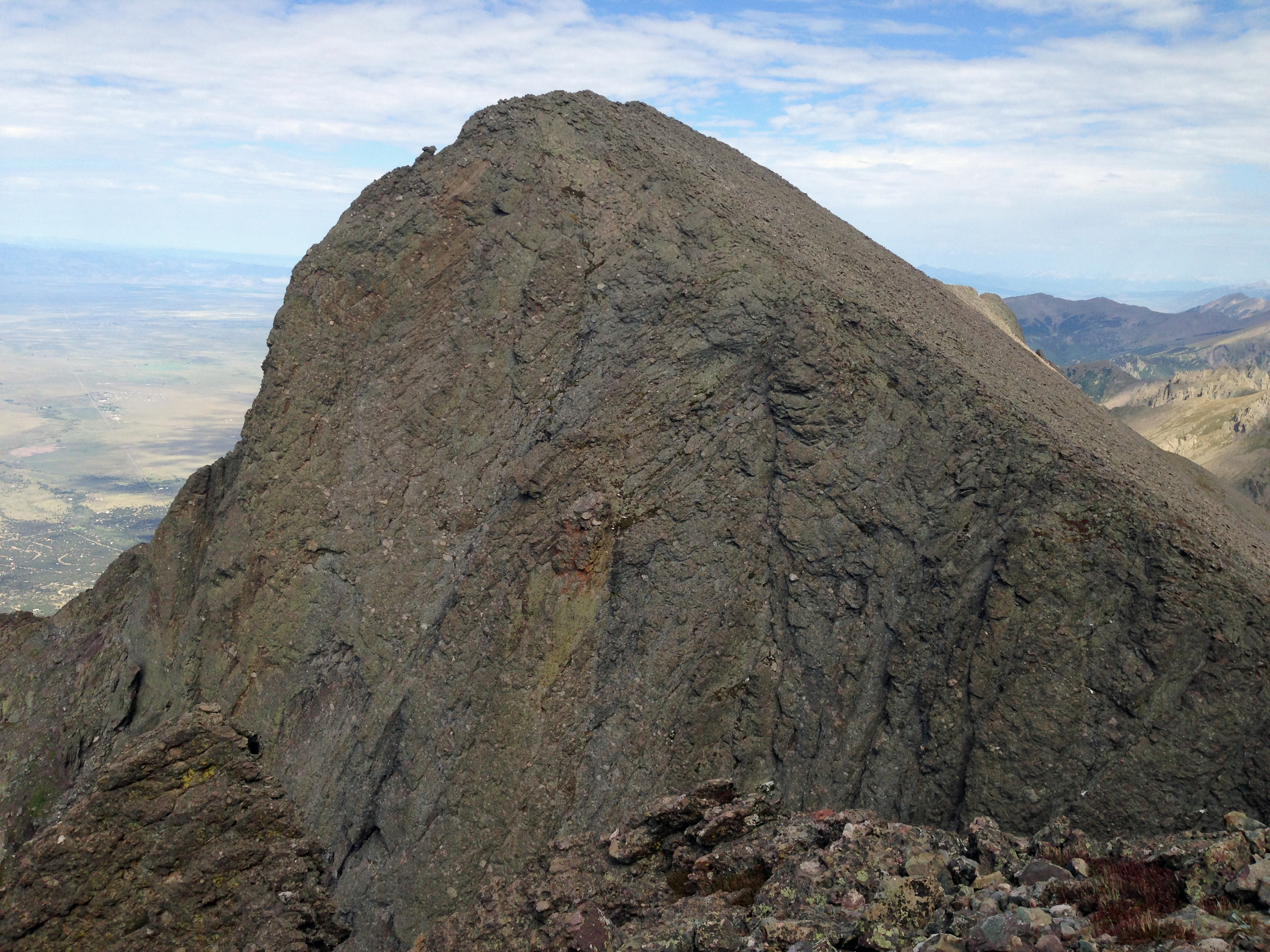 Challenger Point viewed from Kit Carson Avenue in the Sangre de Cristo Range of Colorado.